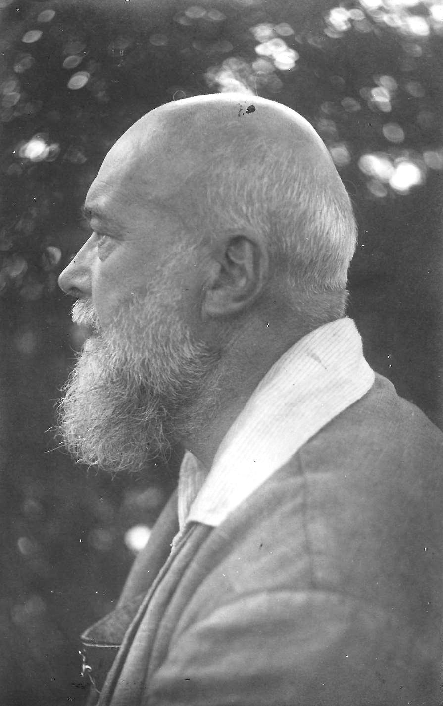 Johannes Jaroslaw Marcinowski (1868-1935), psychiatrist, psychoanalyst